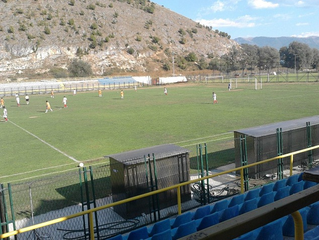 Picture of the city stadium in Kichevo